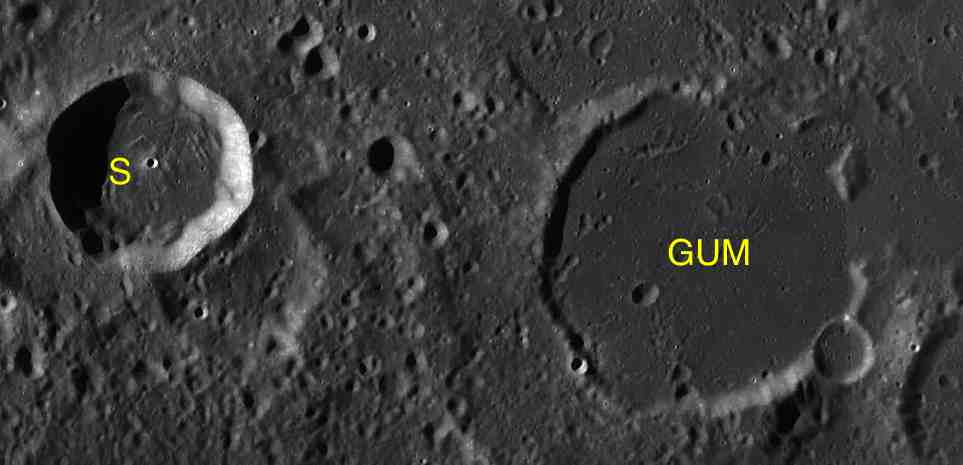 Part of the chart LAC-116 used for the presentation